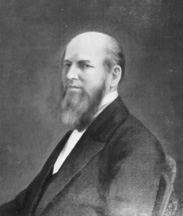 Portrait of Wyman Bradbury Seavy Moor of Maine